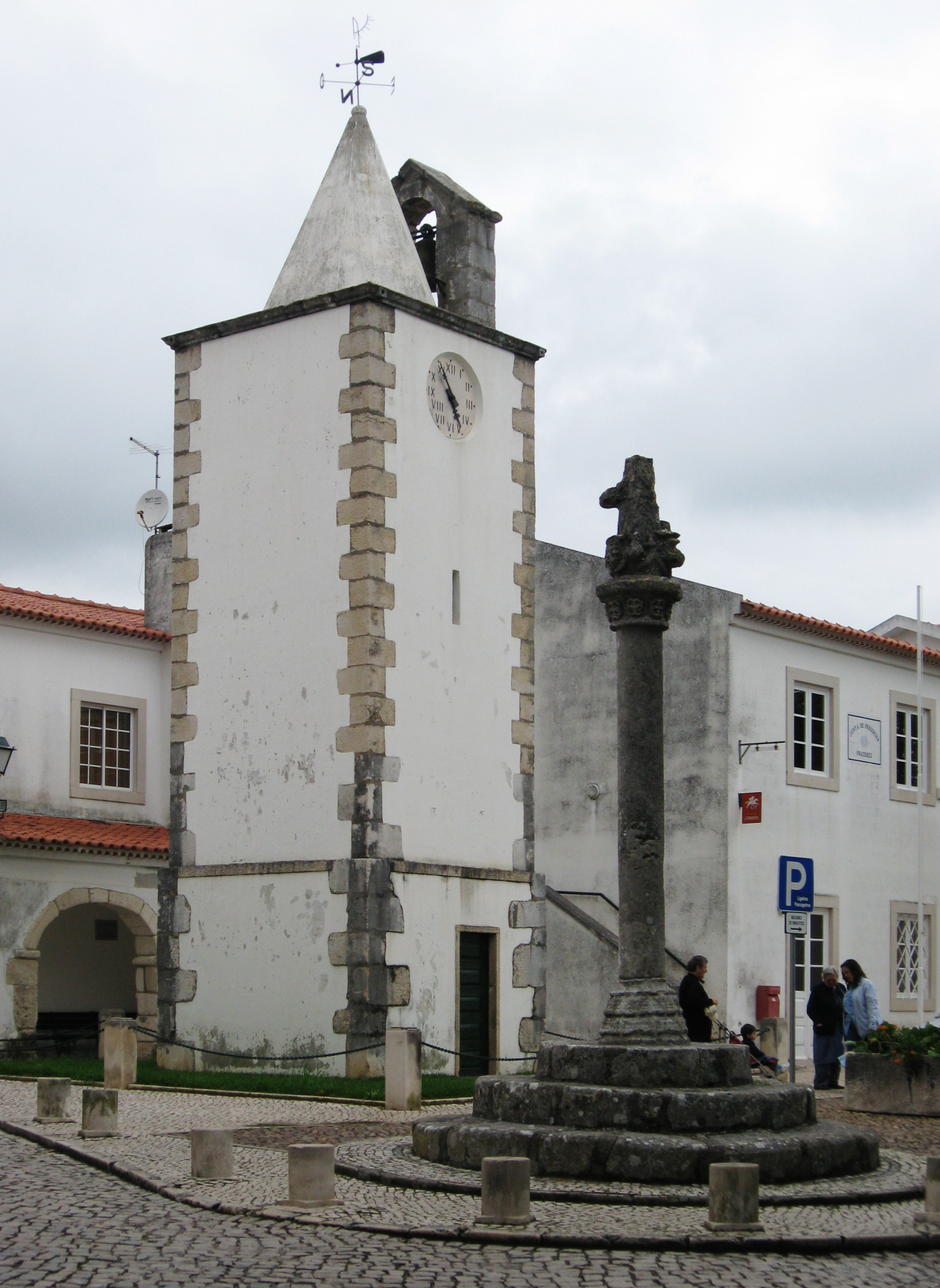 Aljubarrota, Portugal, Coutos de Alcobaça, Pillory from 1514 with tower of old city hall of 16th century